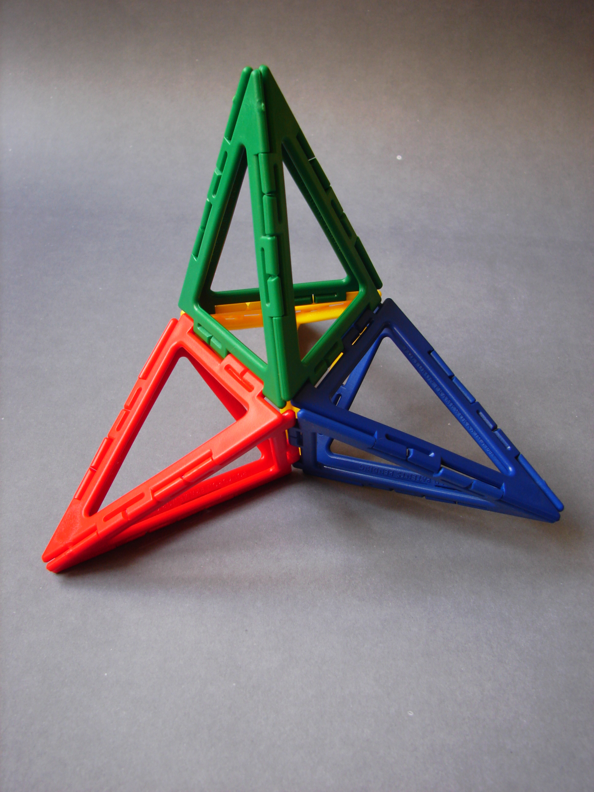 Polydron, Geometrical toys